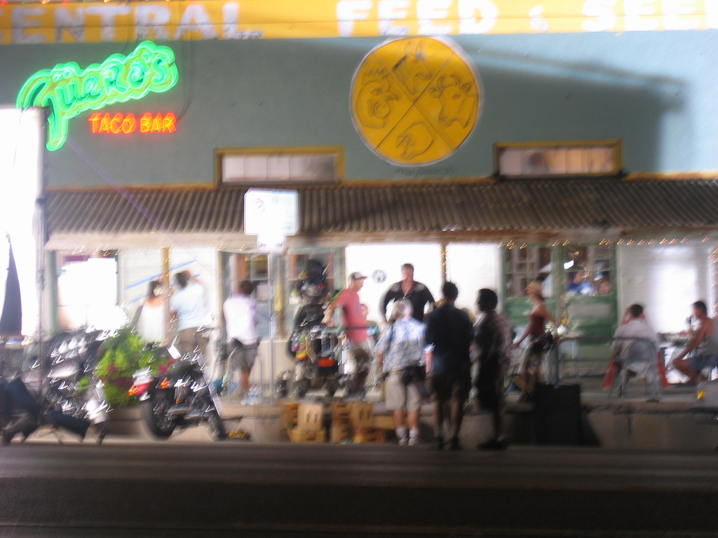 Quentin Tarantino talks to the actors on the set of Death Proof